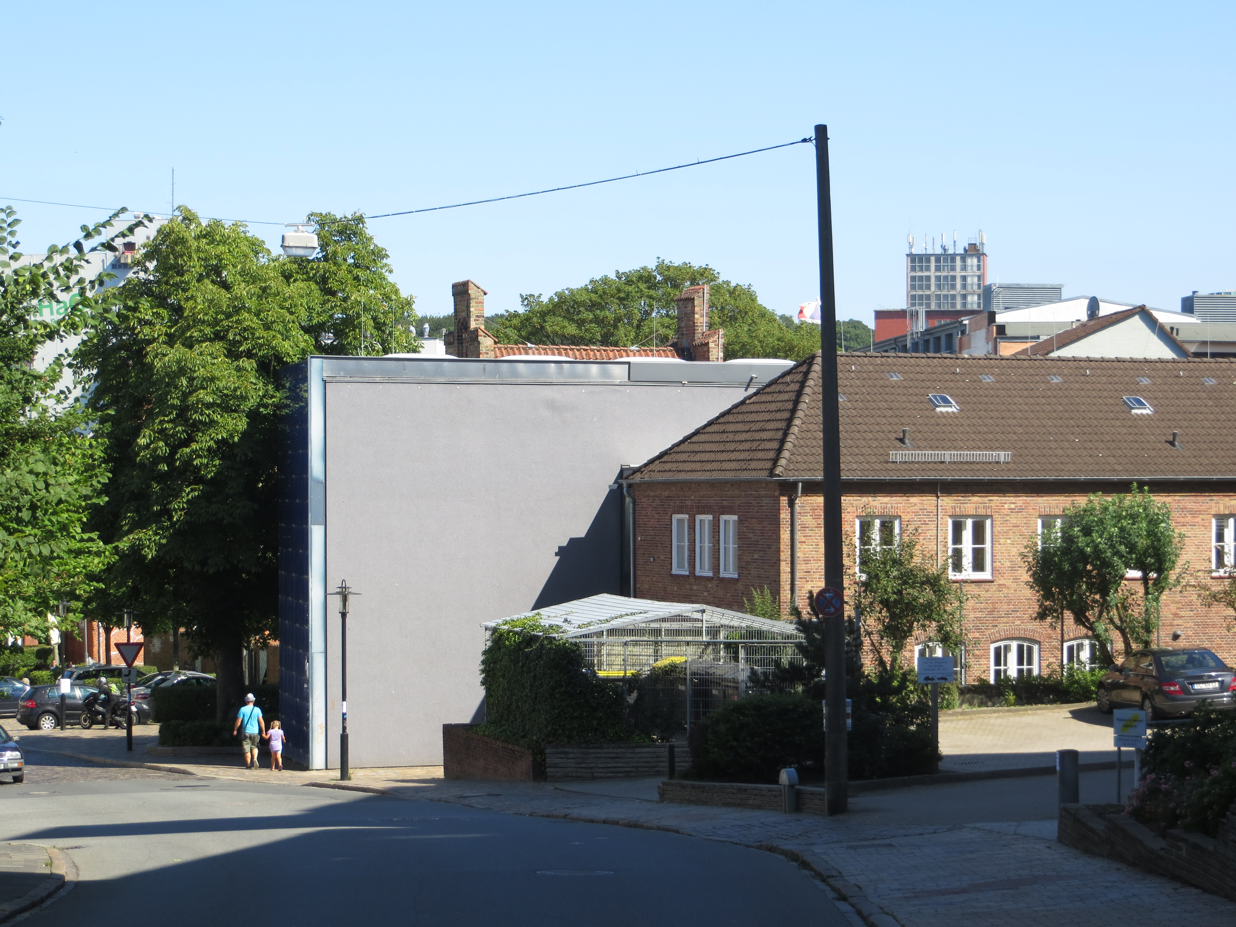 Das_Nordertor_hinter_der_Phänomenta_verbaut,_Flensburg,_2013